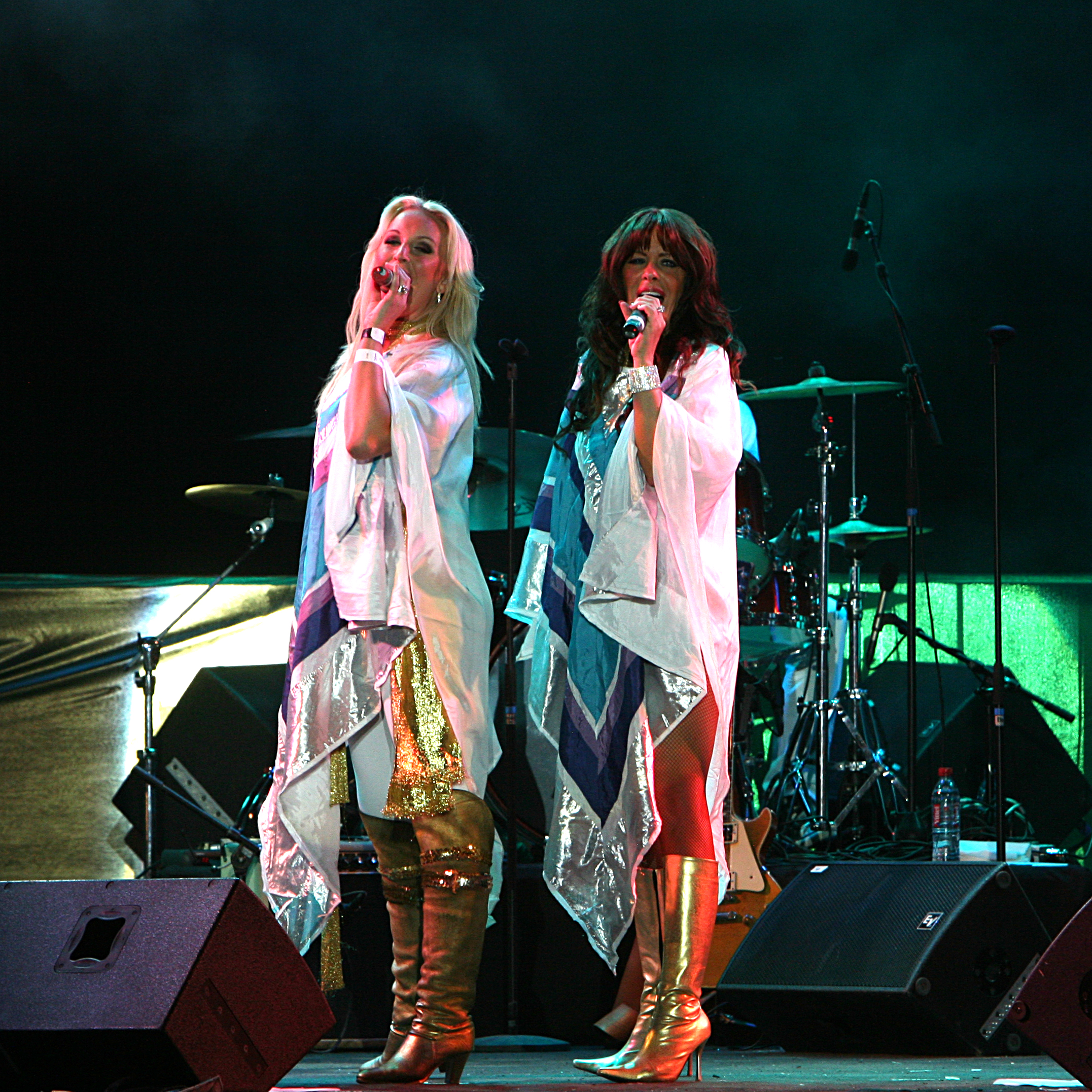 ABBA 2008,7,31 Reprint from Flickr Arrival, a revival Band covering ABBA at the LGBT event Europride 2008 in Stockholm.